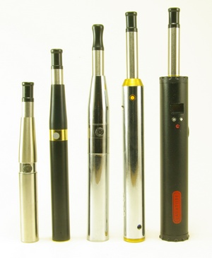 comparison